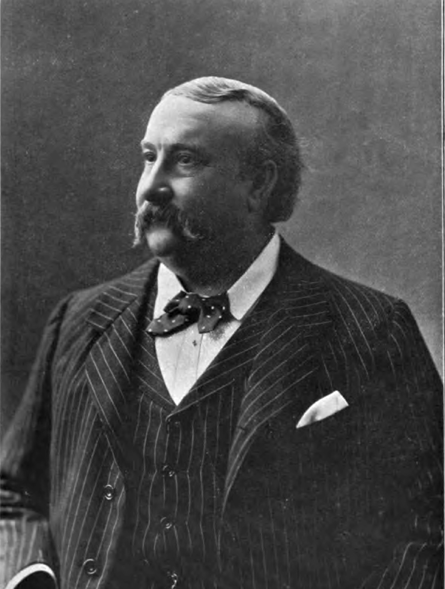 Edward Lloyd (7 March 1845 – 31 March 1927) was a British tenor.